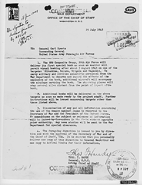 Letter received from General Thomas Handy to General Carl Spaatz, authorizing the dropping of the first atomic bomb.